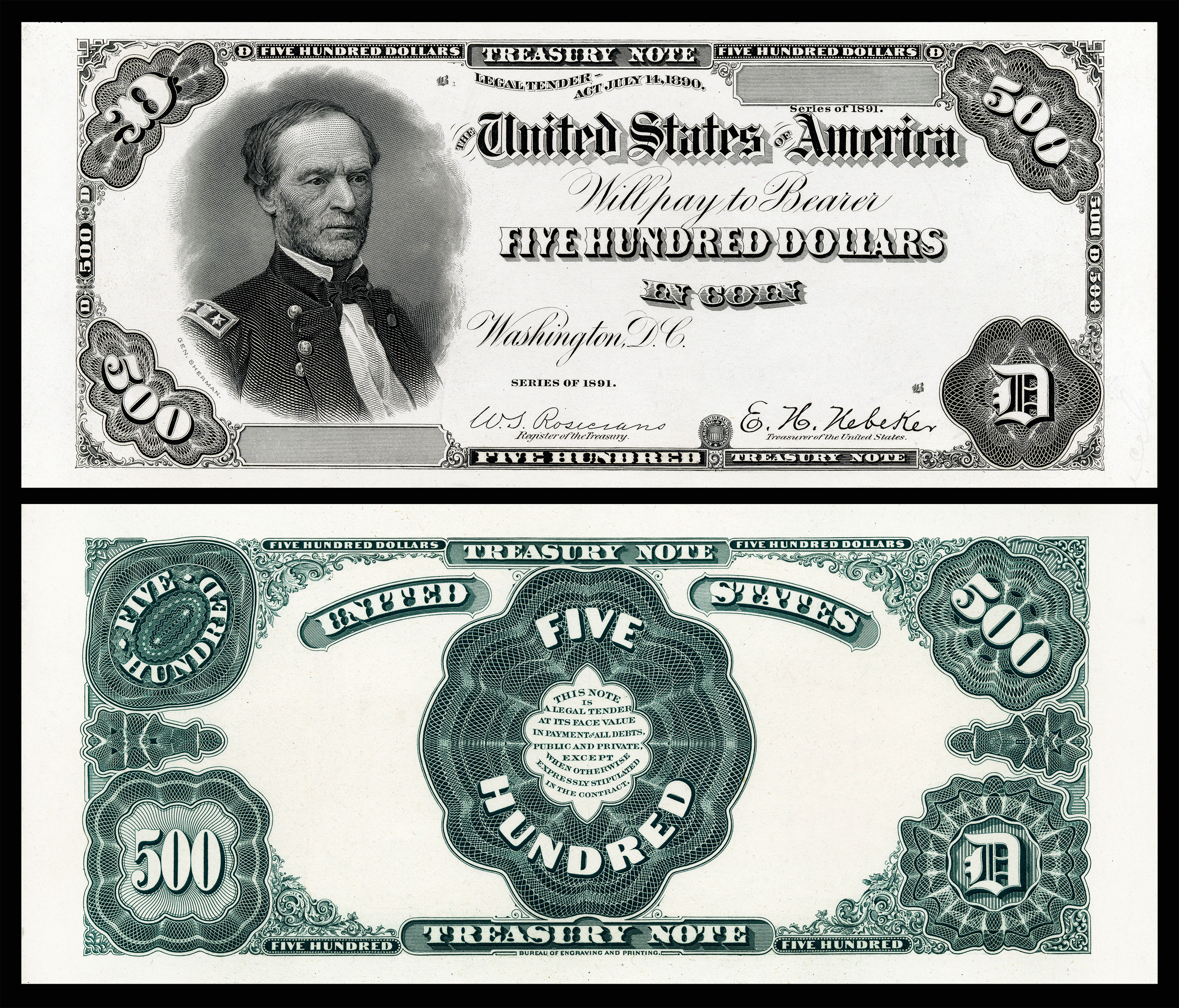 A Series 1891 $500 Proof of a Treasury Note depicting William Sherman with the signatures of William Starke Rosecrans and Enos H. Nebecker. Sherman was Commanding General (1869–83) of the U.S. Army (1840–84) and marched to and captured Savannah, Georgia. (This note was designed and approved but never issued.)